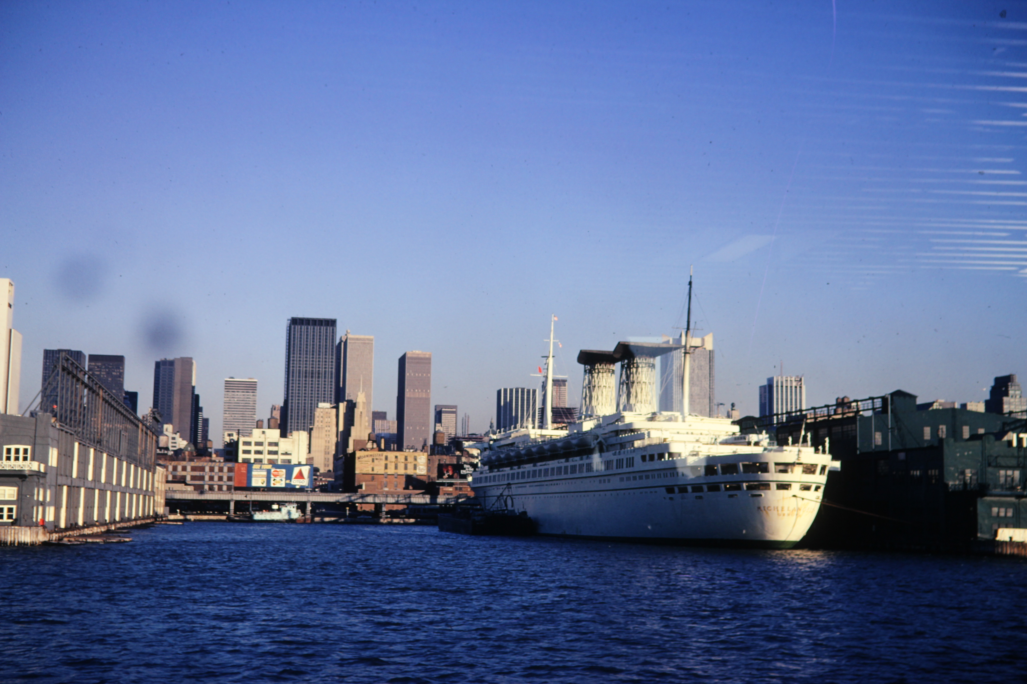 SS Michelangelo